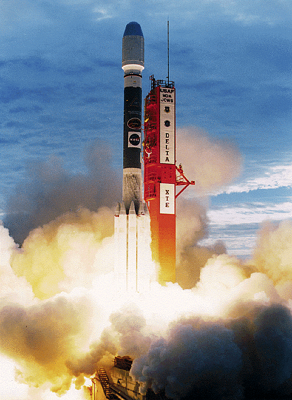 A Delta II launch vehicle carrying the X-ray Timing Explorer (XTE) lights up the sky at 8:48 a.m. EST, December 30, 1995. Liftoff occurred from Launch Complex 17, Pad A, on Cape Canaveral Air Station under the management of a combined government/contractor launch team that includes NASA, the Air Force and McDonnell Douglas. The XTE spacecraft is outfitted with three scientific instruments that will study X-rays, including their origin and emission mechanisms, and the physical conditions and evolution of X-ray sources within the Milky Way galaxy and beyond. The XTE is one is a series of Explorer missions planned by NASA; it will perform its observations from a vantage point in low Earth orbit for a mission duration expected to last two to five years. The Delta II 7920 expendable launch vehicle carrying the XTE spacecraft into orbit is provided by McDonnell Douglas. Delta 230, as this vehicle was designated, is the first in the Delta family to fly outfitted with a new advanced avionics system.